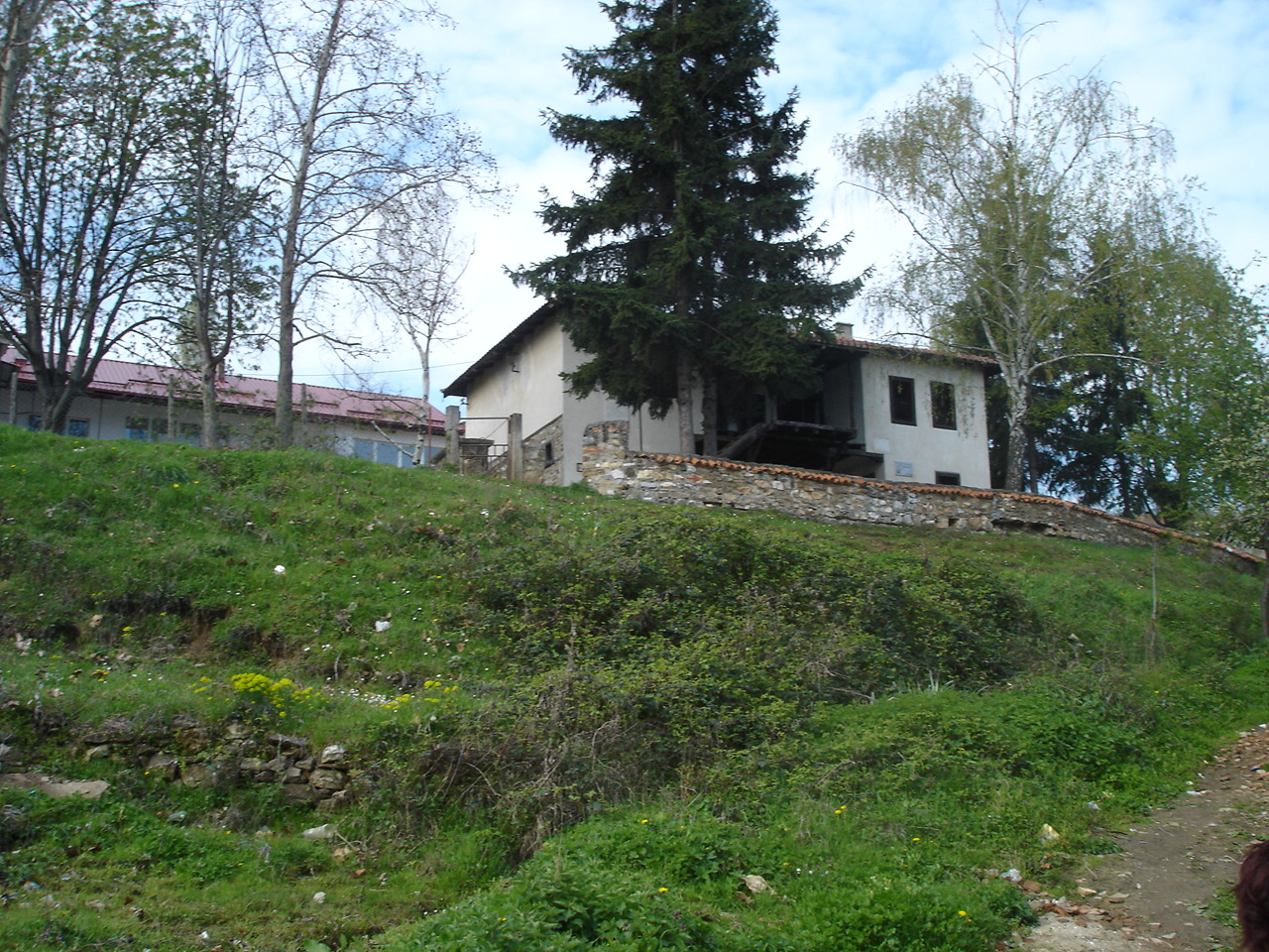 Partisan house-museum in village of Gorno Kolichani, Macedonia